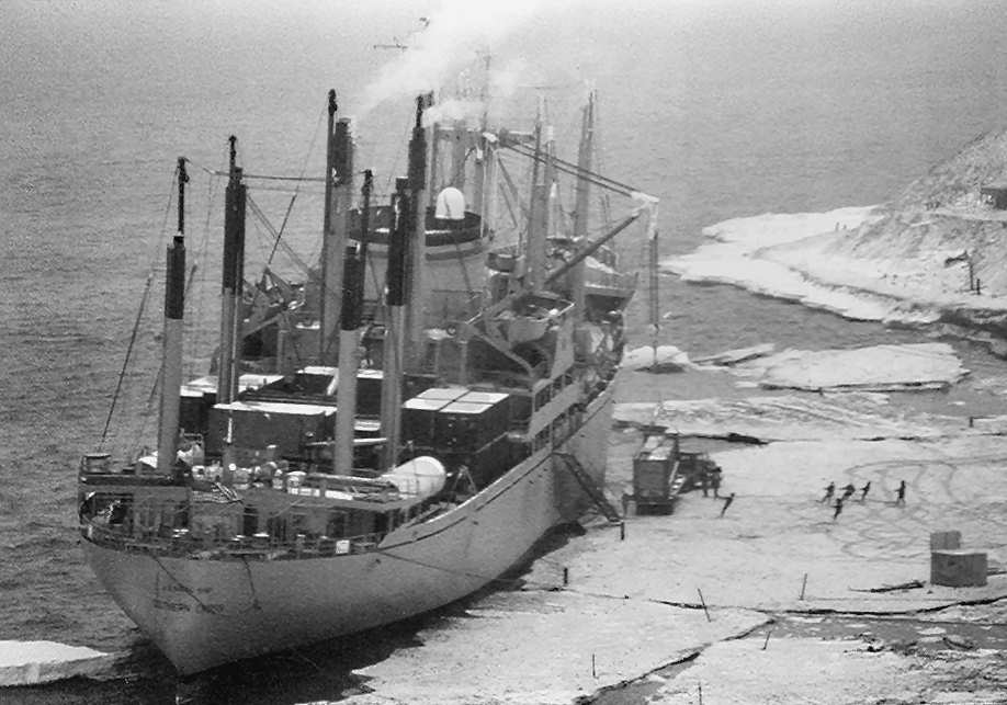 Date: 1983 Location: McMurdo Station, Antarctica Photographer: Randy C. Bunney USNS Southern Cross cargo operations at ice pier. McMurdo Station, Antarctica; 1983. The ice pier had been in use four seasons. Workers made the ice pier by repeatedly flooding an area with water which quickly turned to ice. However, by the time of 1983 cargo operations, the pier was rapidly deteriorating. Severe cracks appeared in the surface even as tidewaters further undercut the pier's edge causing large chunks of ice to break off. References "Race to reach McMurdo Station," The Press, March 23, 1983; Christchurch, New Zealand.